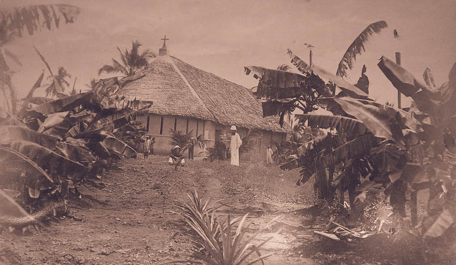 Albumen print. Part of the Michael Graham-Stewart slavery collection Mounted with ZBA2617.